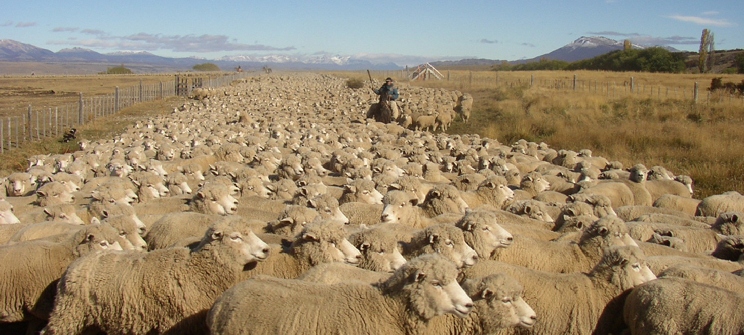 Sheeps in Patagonia - Argentina